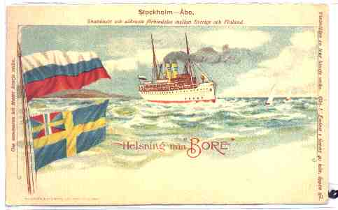 Old postcard from a ship route Sweden-Åbo (then part of Russia) The Union-flag indicates the postcard is older than from 1905.